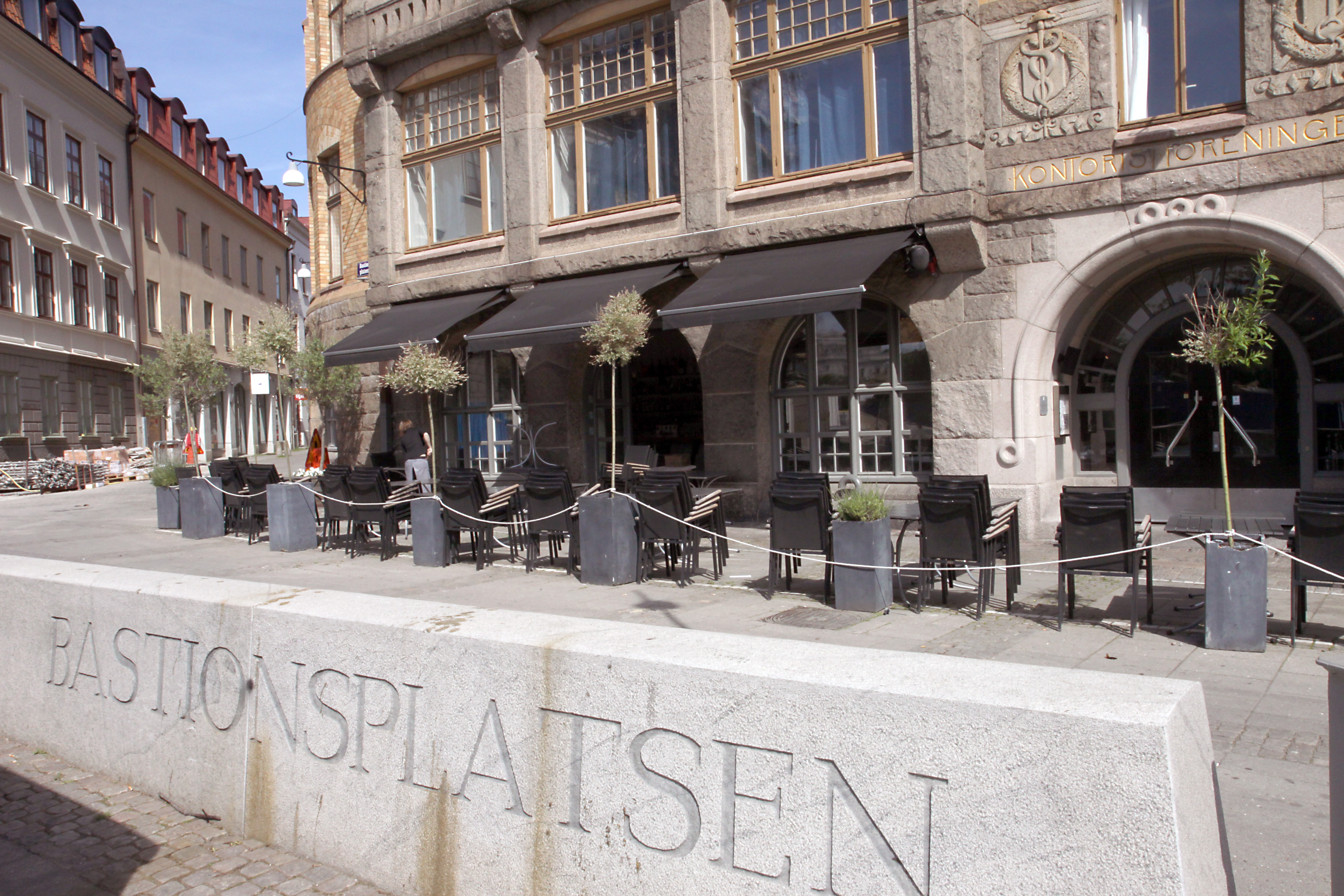 Bastionsplatsen, a smaller square in Gothenburg, Sweden